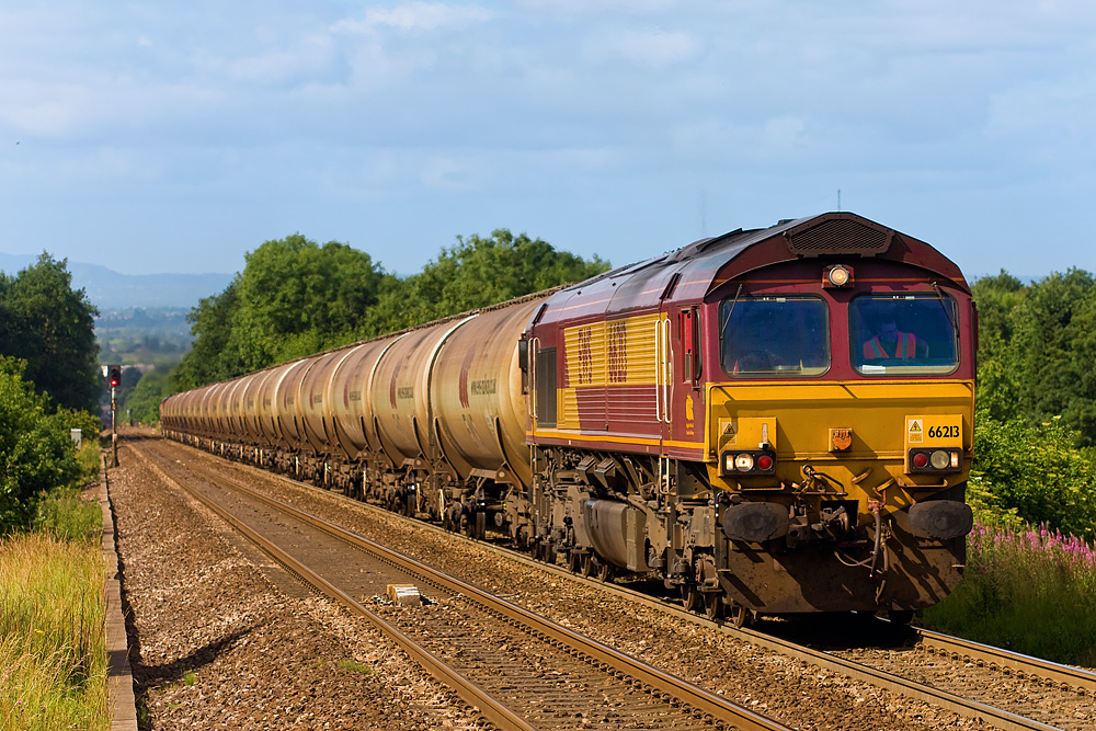 DBS loco 66213 works a heavy train of oil tankers with the banking assistance of 66059 at the rear of the train